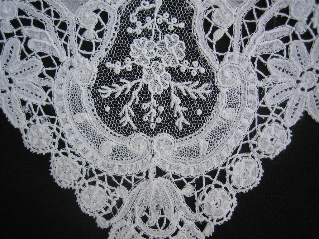 lace